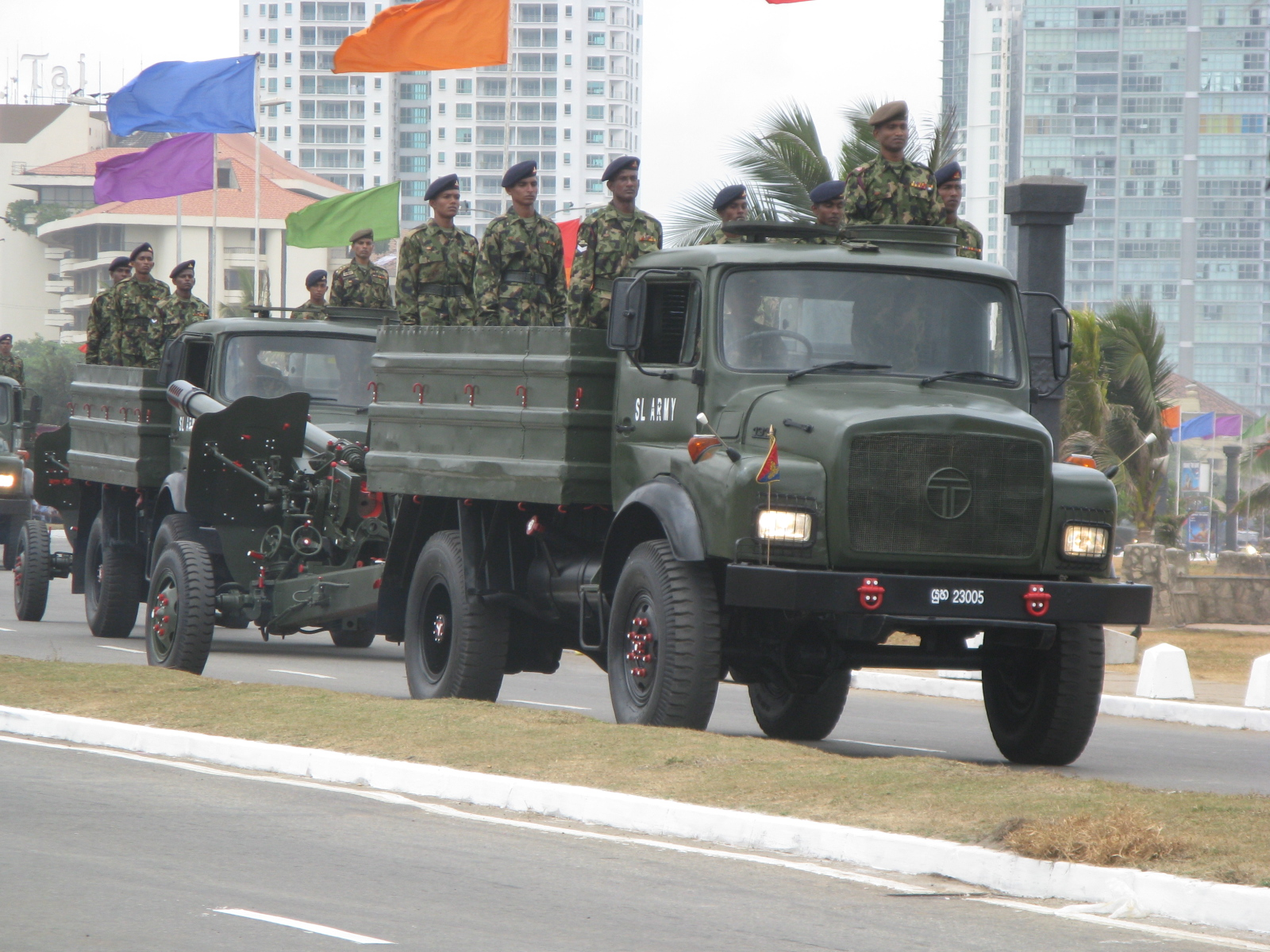 Artillery Units - Sri Lanka Army